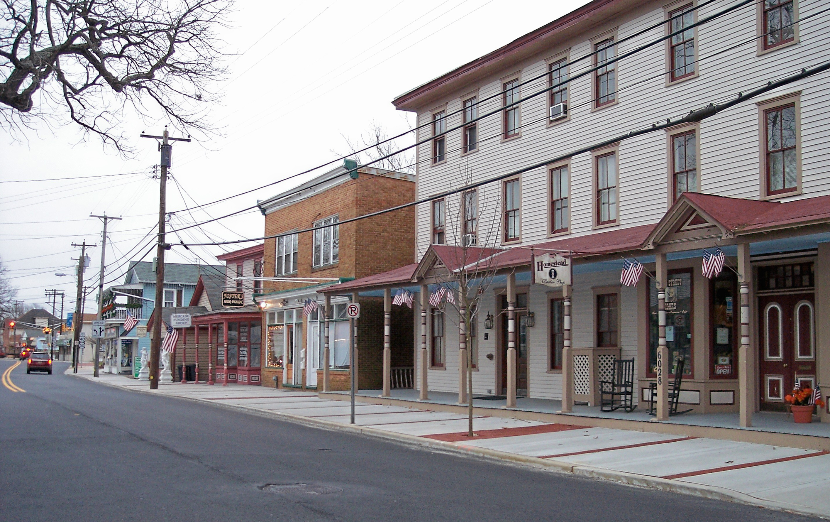 Main Street in Mays Landing, New Jersey